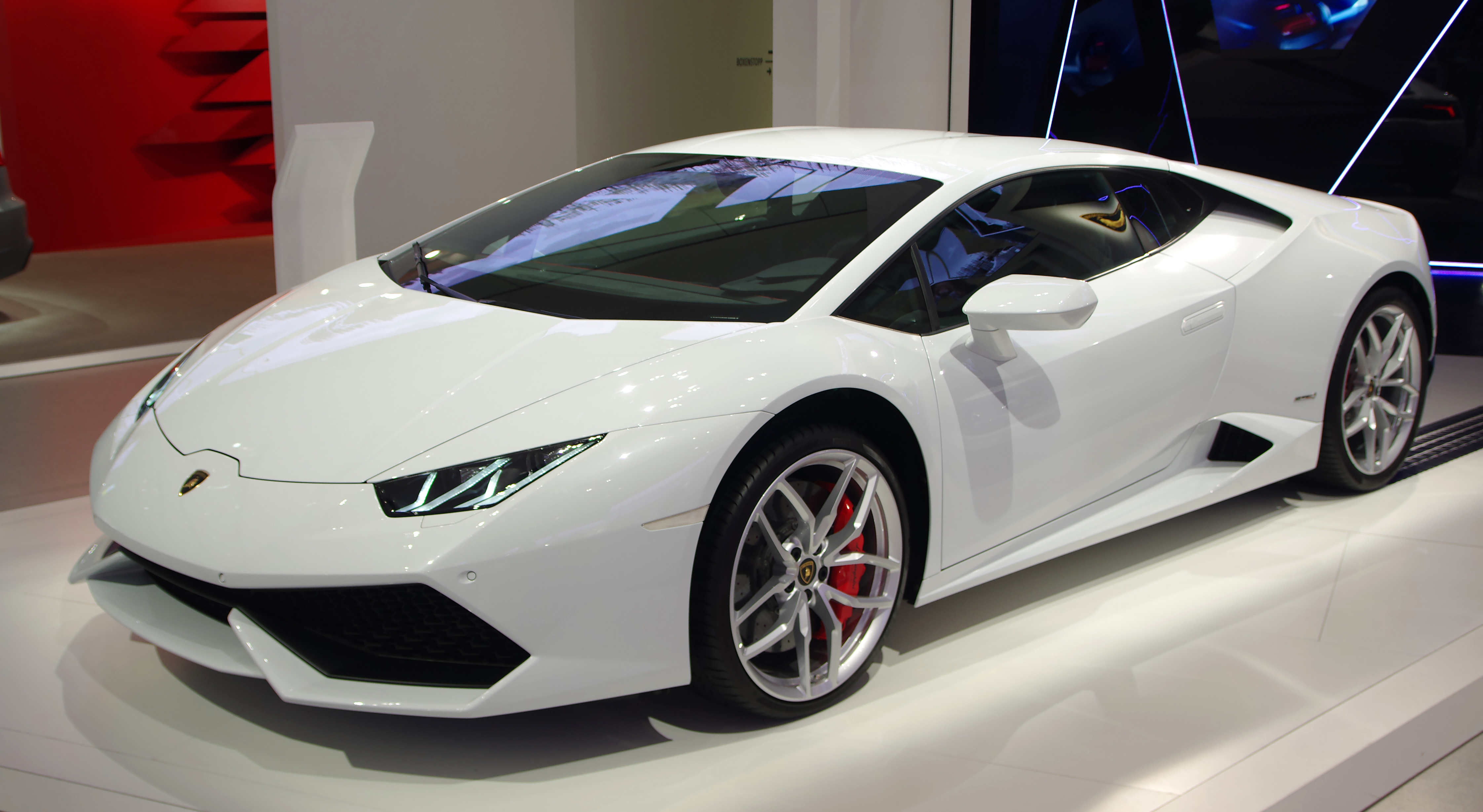 Lamborghini Huracán